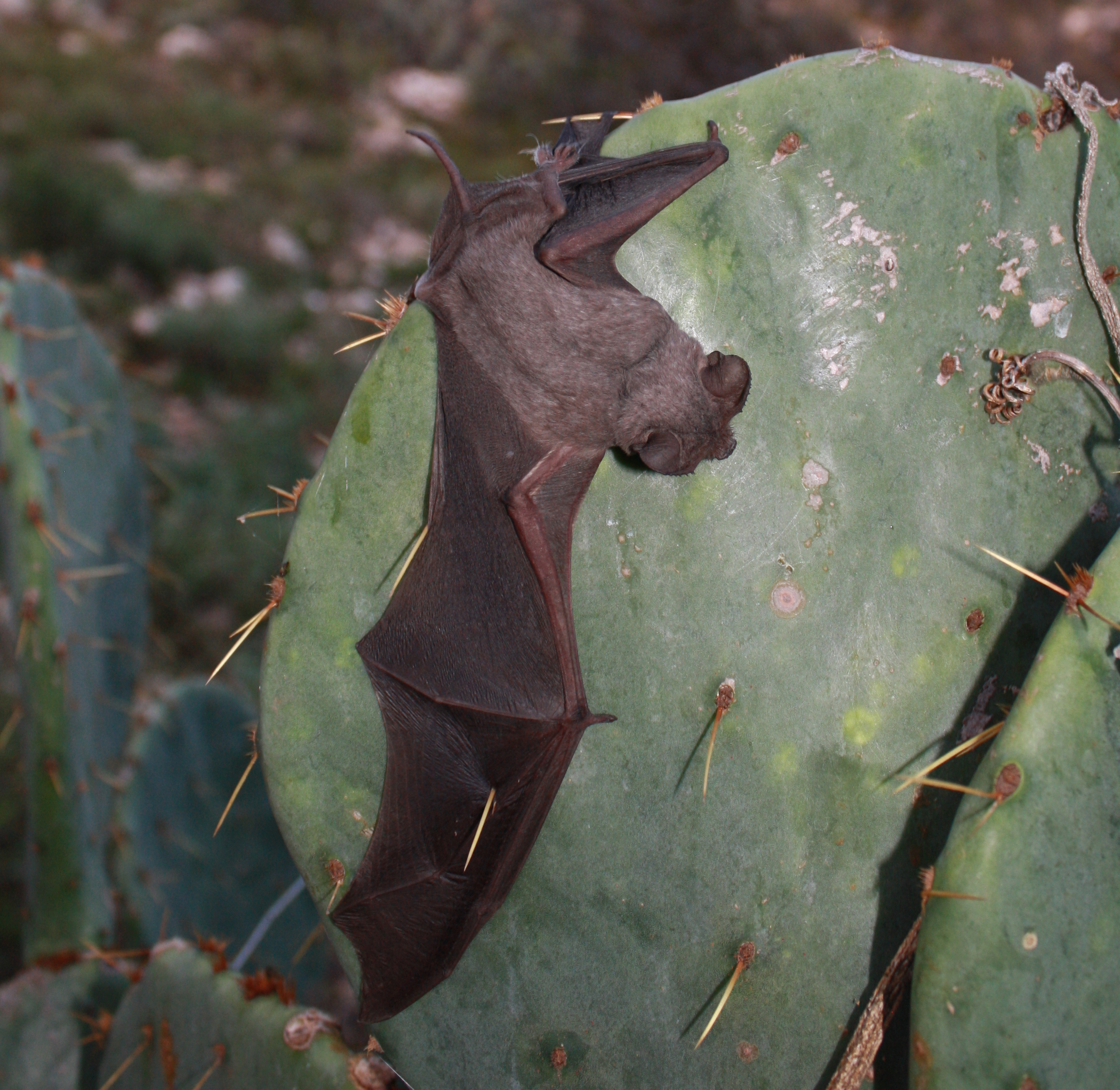 There are so many bats leaving the cave, some are blown into dearby vegetation. This bat was stuck on a cactus, but later freed itself. Bat wing tissue heals quickly if damage is not too severe. photo credit: USFWS/Ann Froschauer